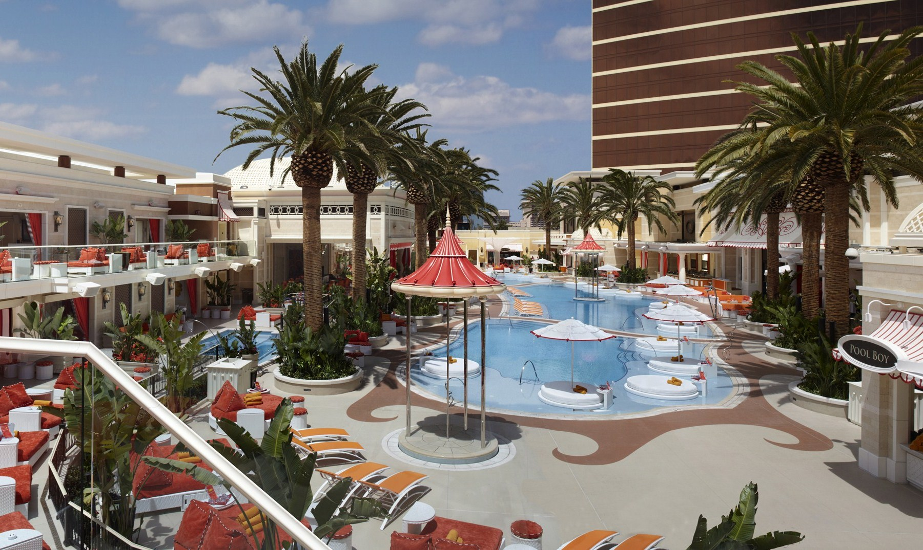 Encore Beach Club at Encore Resort & Casino